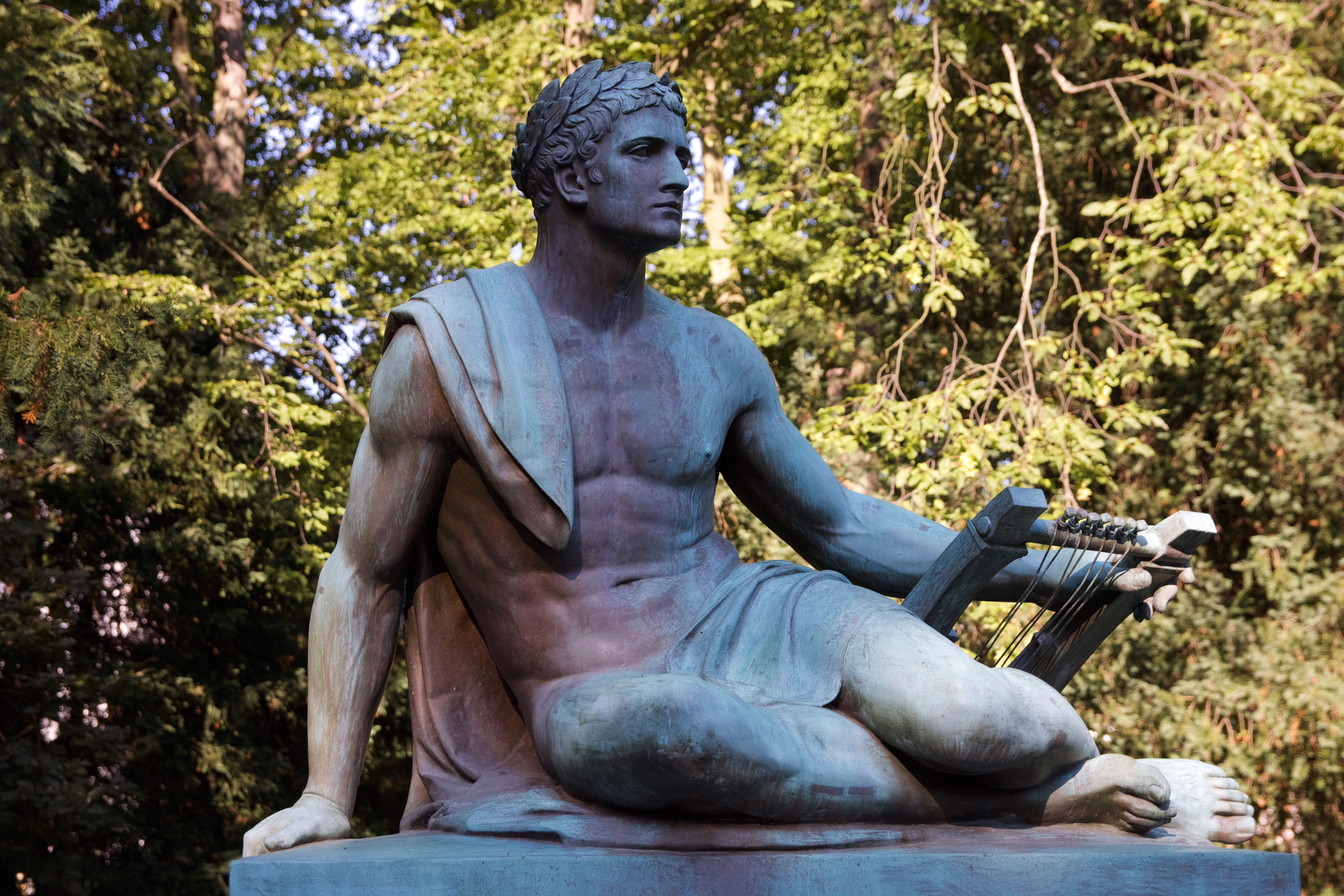 Kleist monument by Gottlieb Elster in Frankfurt (Oder), 1910